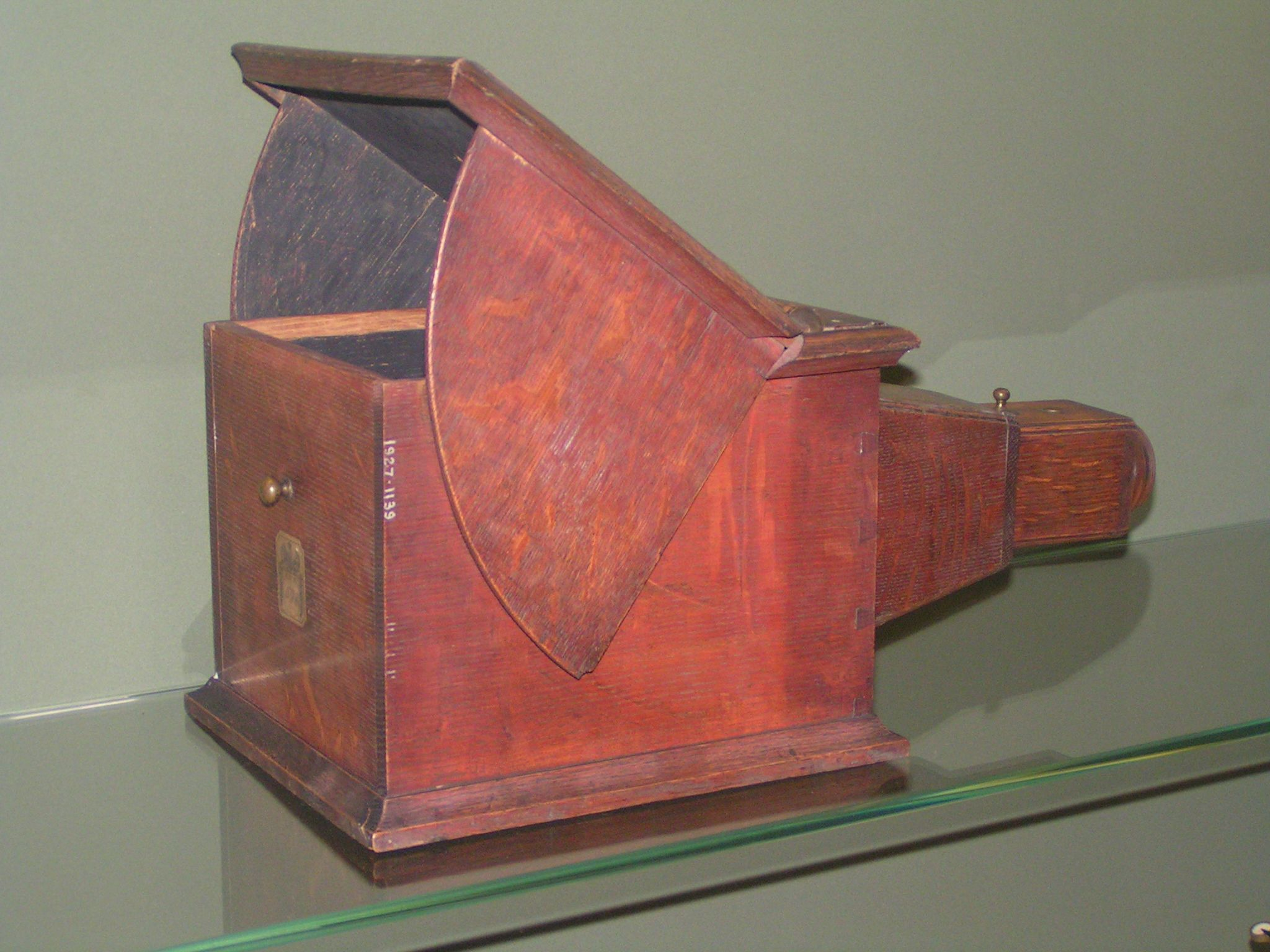 Camera_obscura, Science Museum London, UK